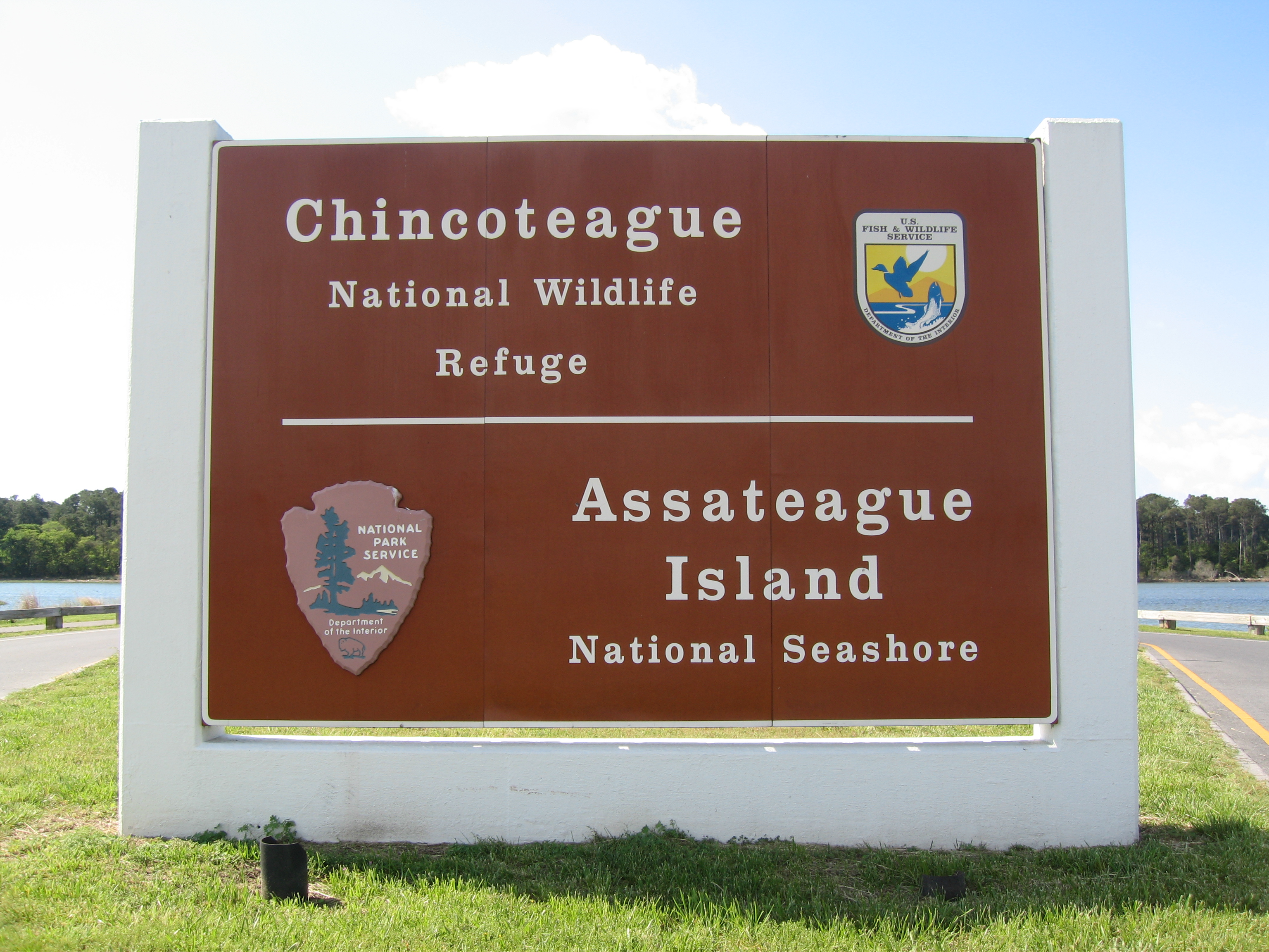 Chincoteague National Wildlife Refuge / Assateague Island National Seashore monument sign located at entrance to Assateague Island, Virginia. The Assateague Channel is in the background. Photograph taken in May 2008 from Maddox Boulevard facing southeast, showing the northwest face of the sign.